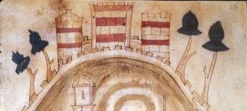 Particular of the Arechi's Castle of Salerno, from the Liber ad Honorem Augusti